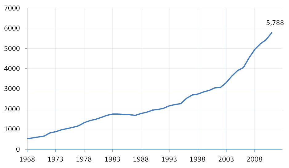 1st year enrollment at U.S. osteopathic medical schools, 1968-2007.